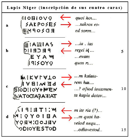 Text of Lapis Niger, Rome.